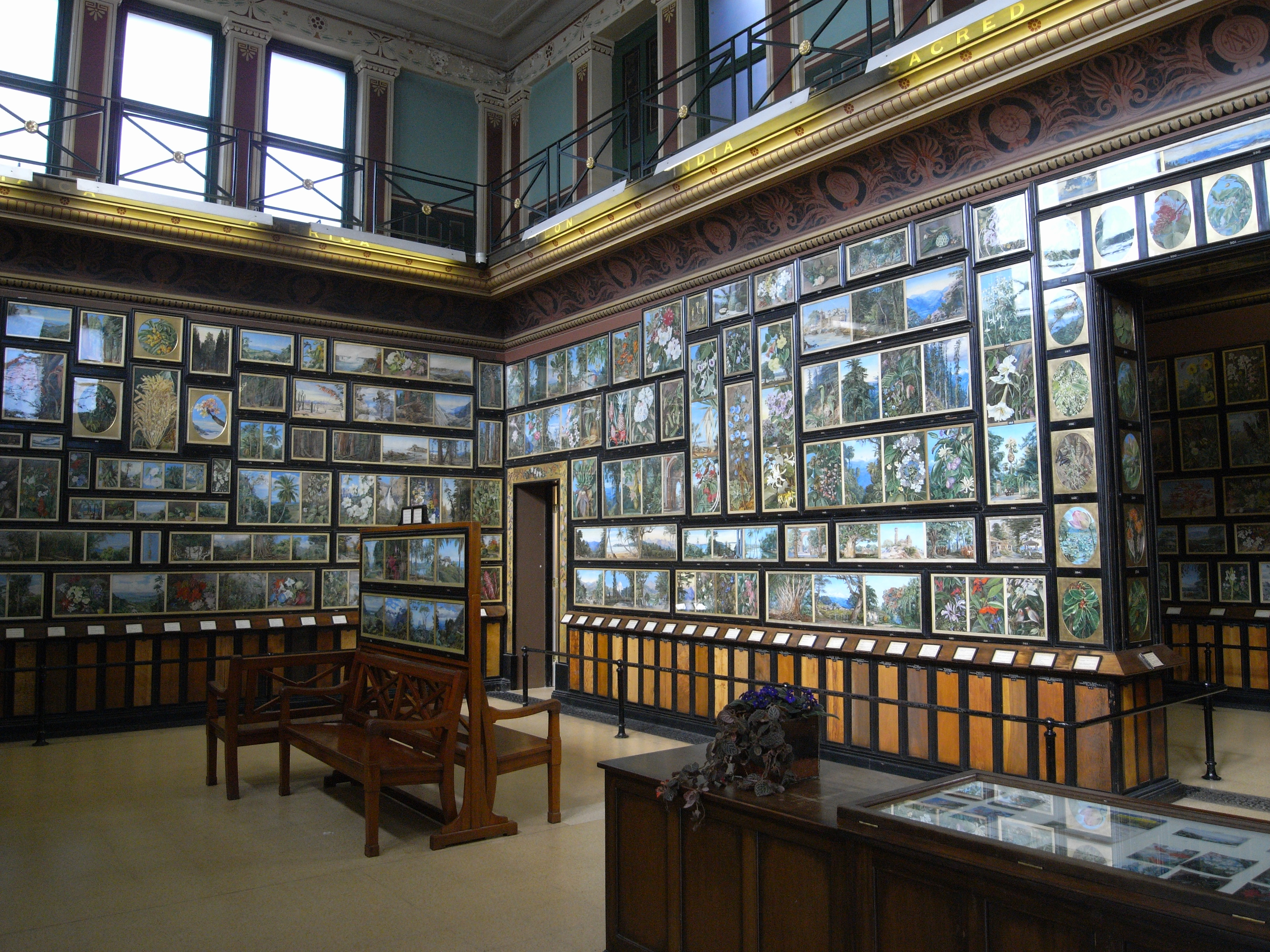 Marianne North Gallery, in Kew Gardens, London. Interior shot taken before the gallery was closed for restoration.